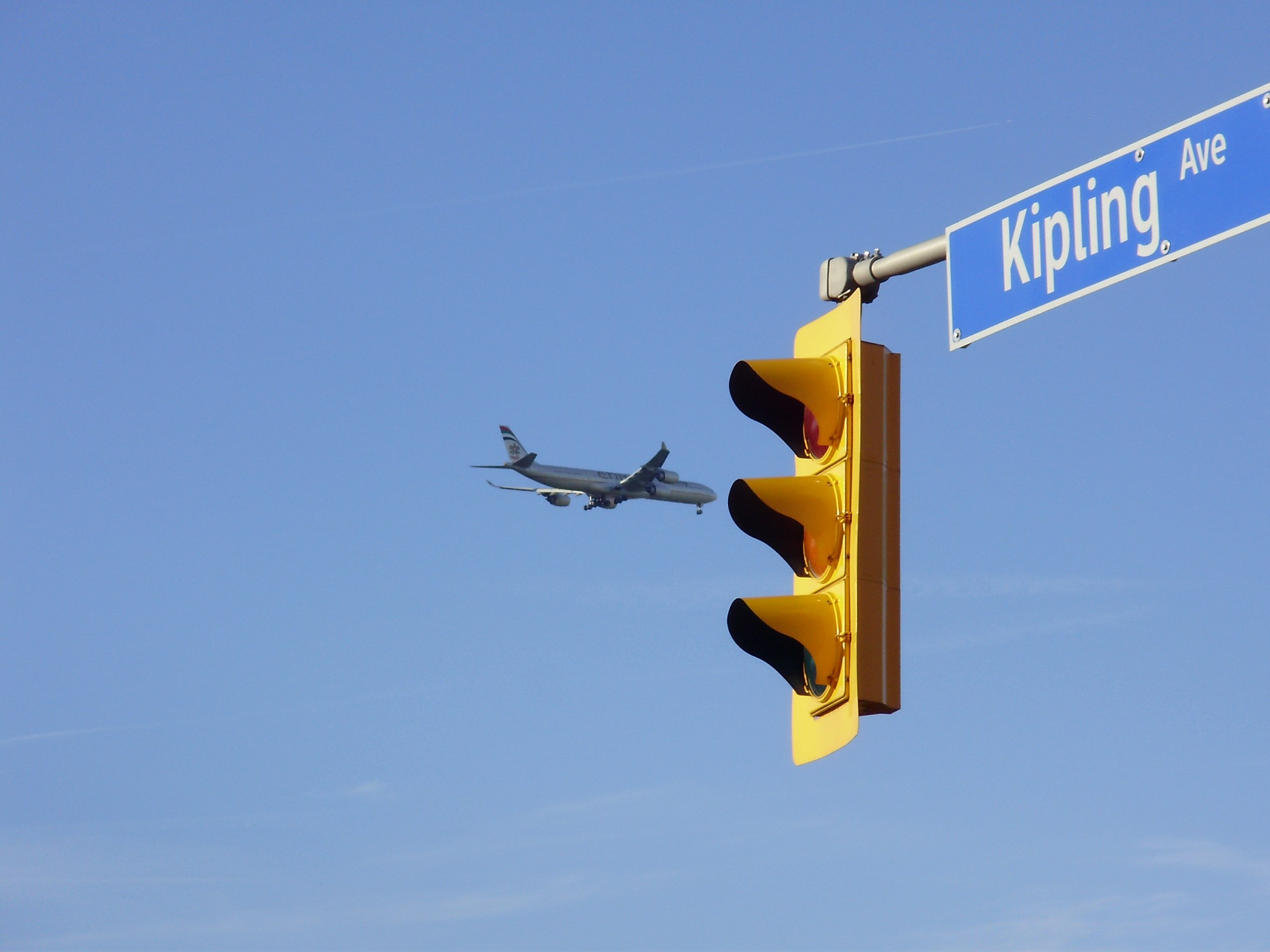 An Etihad Airways A340-500 aircraft descends for landing at Toronto Pearson International Airport, with a traffic light and street sign for Kipling Avenue visible in the foreground. Taken from the northwest corner of the Kipling Avenue and Finch Avenue West intersection in Toronto, Ontario, Canada.